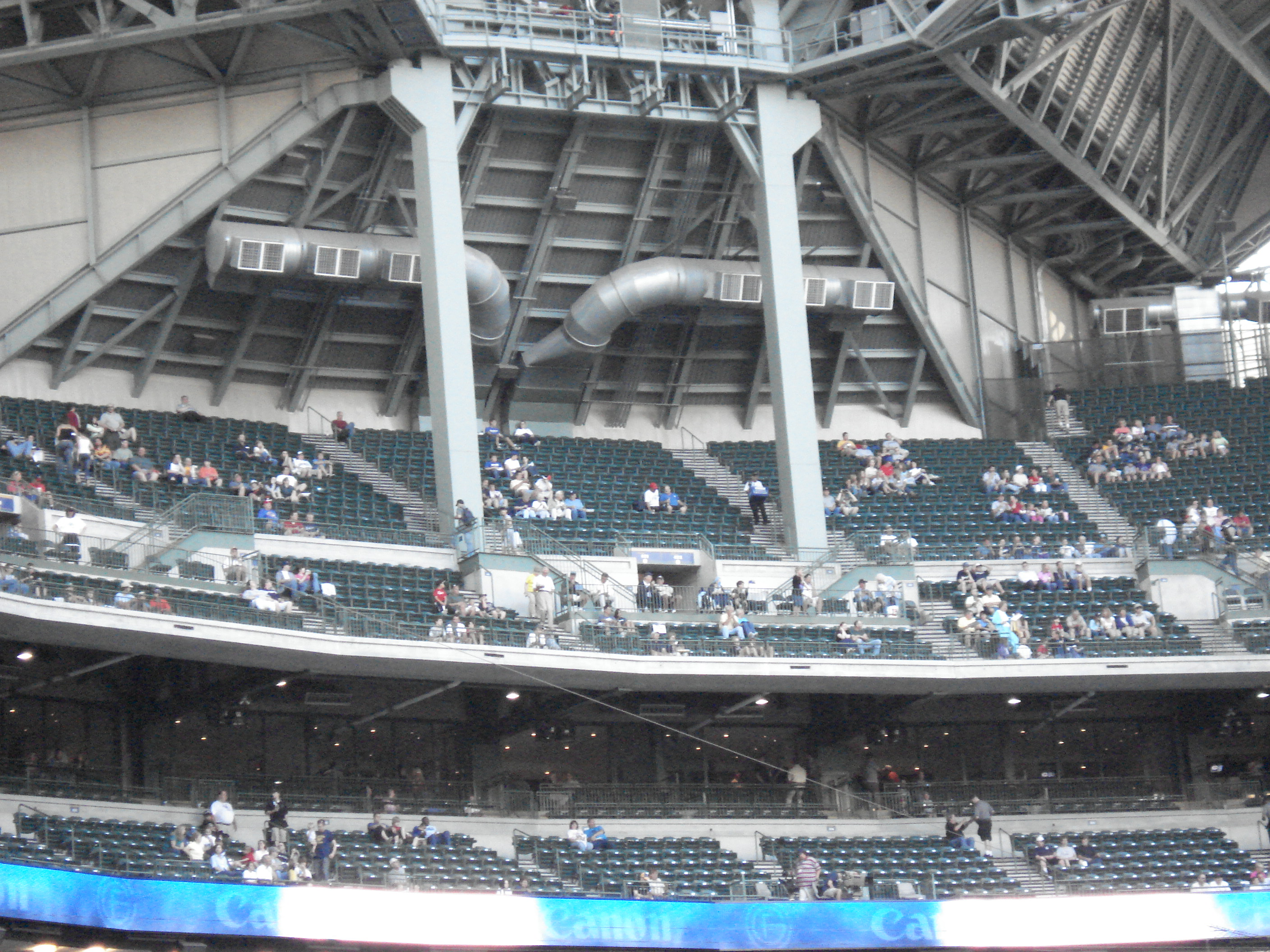 Miller Park's Uecker Seats. These obstructed-view, one dollar seats were named so based on a Miller Lite commercial featuring Milwaukee Brewers commentator Bob Uecker. 23:53, 17 August 2007 . . Mshake3 . . 2816×2112 (1.55 MB)